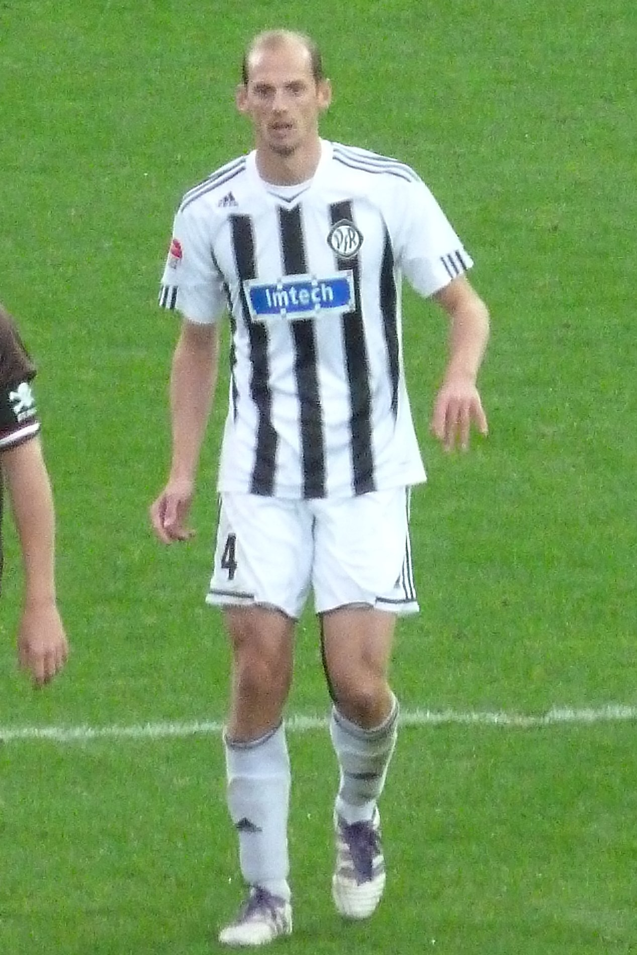 Oliver Barth as Player from VfR Aalen